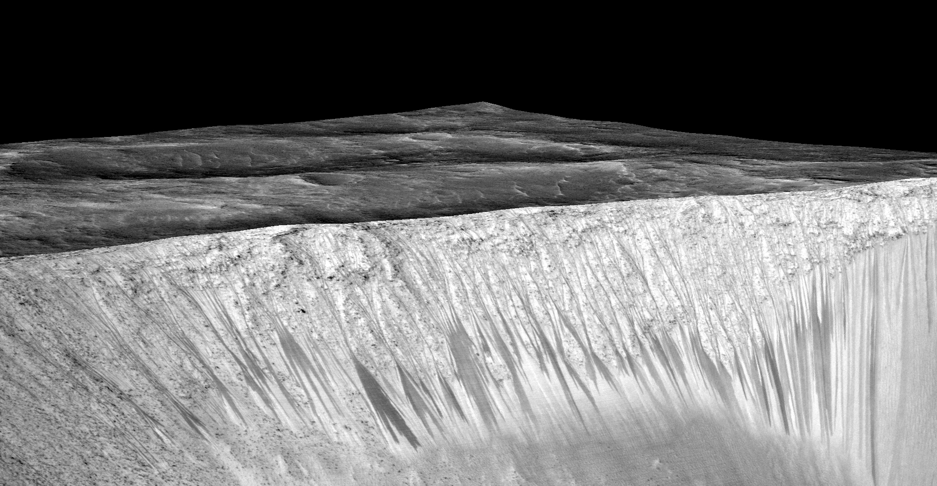 Dark narrow streaks called recurring slope lineae emanating out of the walls of Garni crater on Mars. The dark streaks here are up to few hundred meters in length. They are hypothesized to be formed by flow of briny liquid water on Mars. The image is produced by draping an orthorectified (RED) image (ESP_031059_1685) on a Digital Terrain Model (DTM) of the same site produced by High Resolution Imaging Science Experiment (University of Arizona). Vertical exaggeration is 1.5. Credits: NASA/JPL/University of Arizona